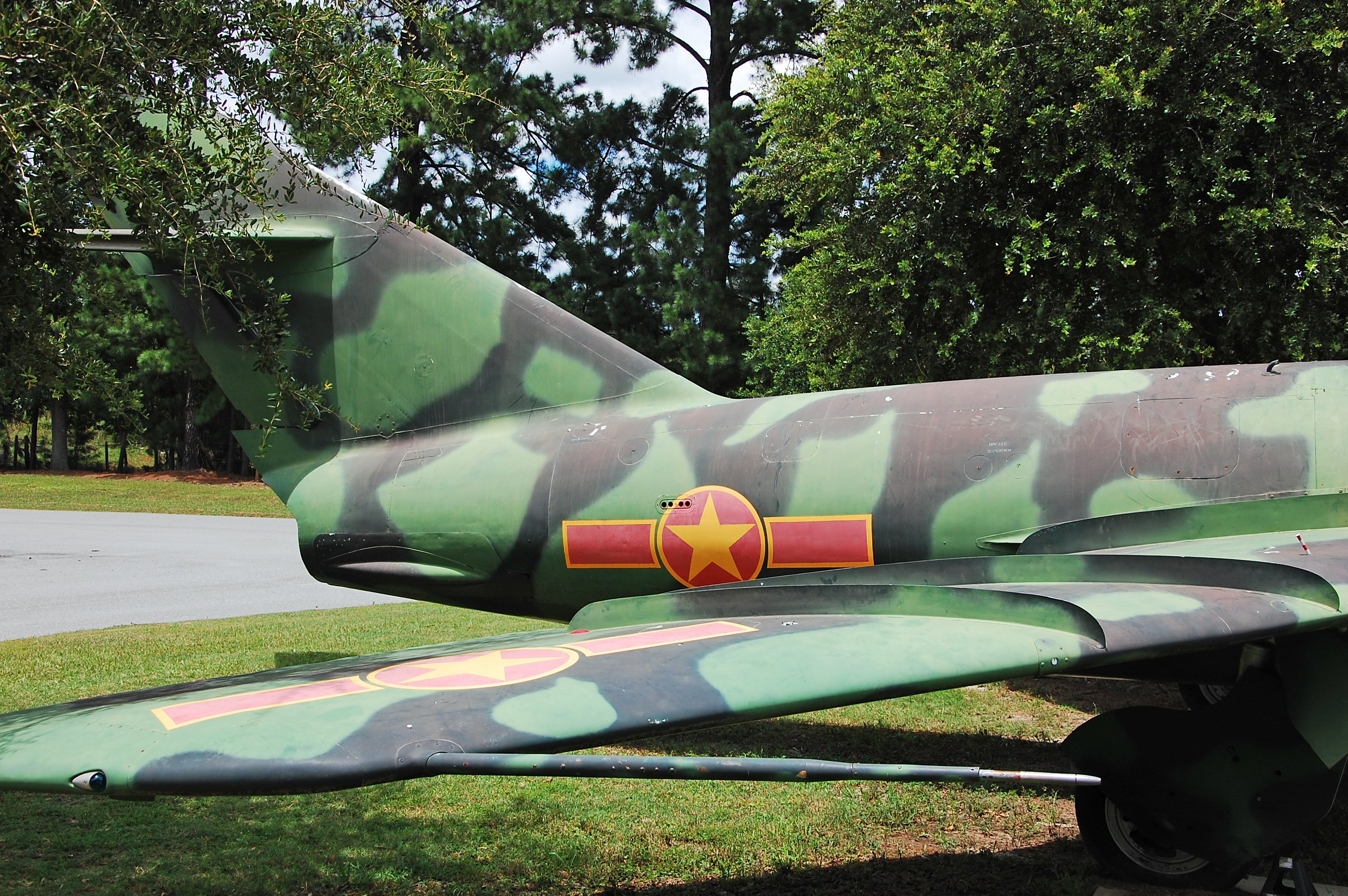 Tail section of a MiG 17 from North Vietnam, showing the insignia. Serial number 1589.